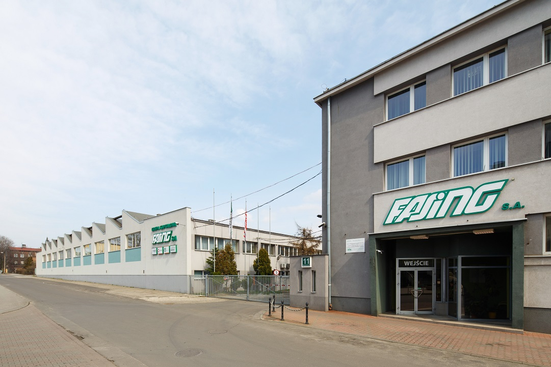 The photo shows the main building of the FASING Group, one of the world's key producers of industrial chains